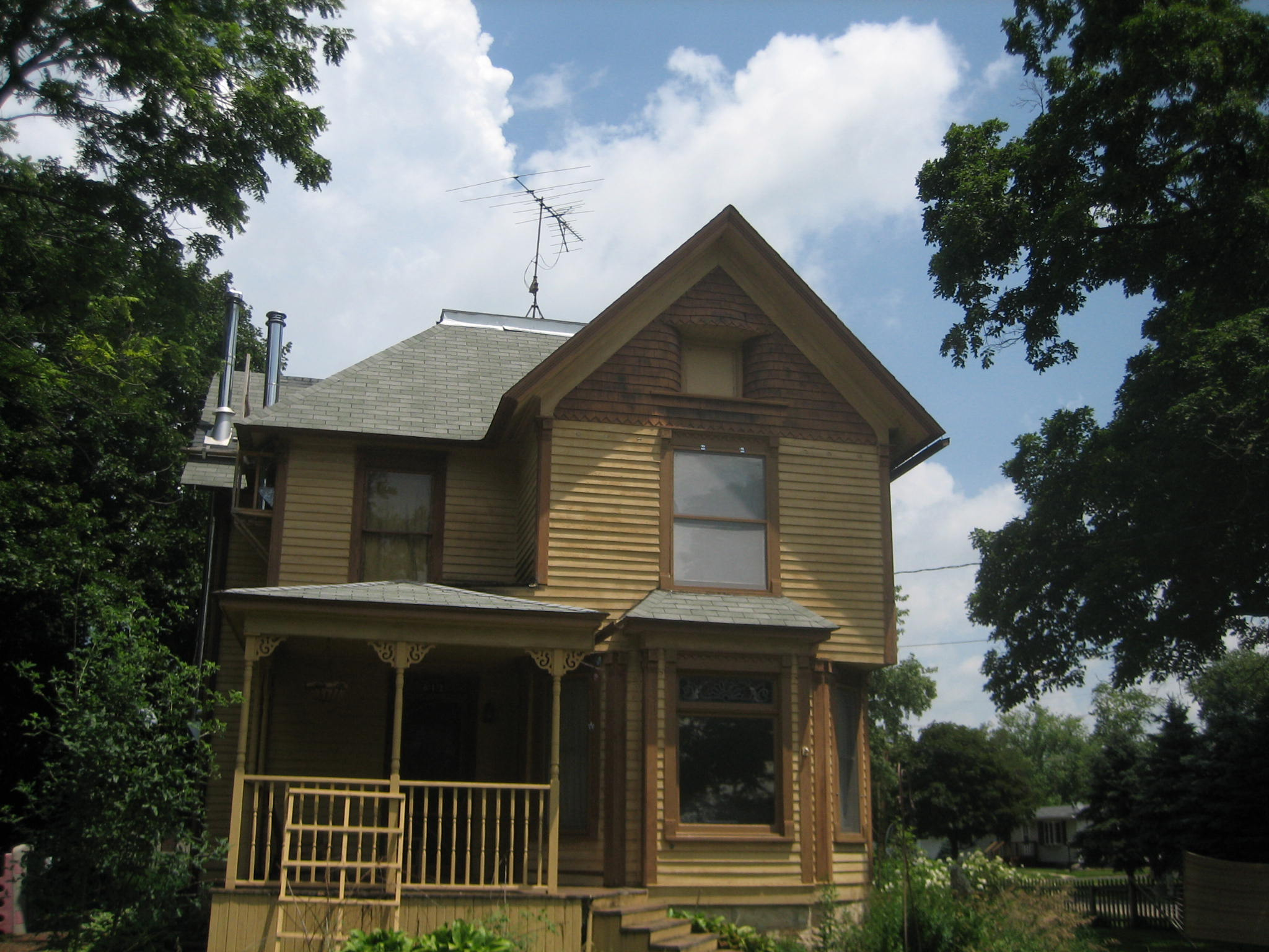 Stephen Wright House, Paw Paw, Illinois, United States. U.S. National Register of Historic Places.